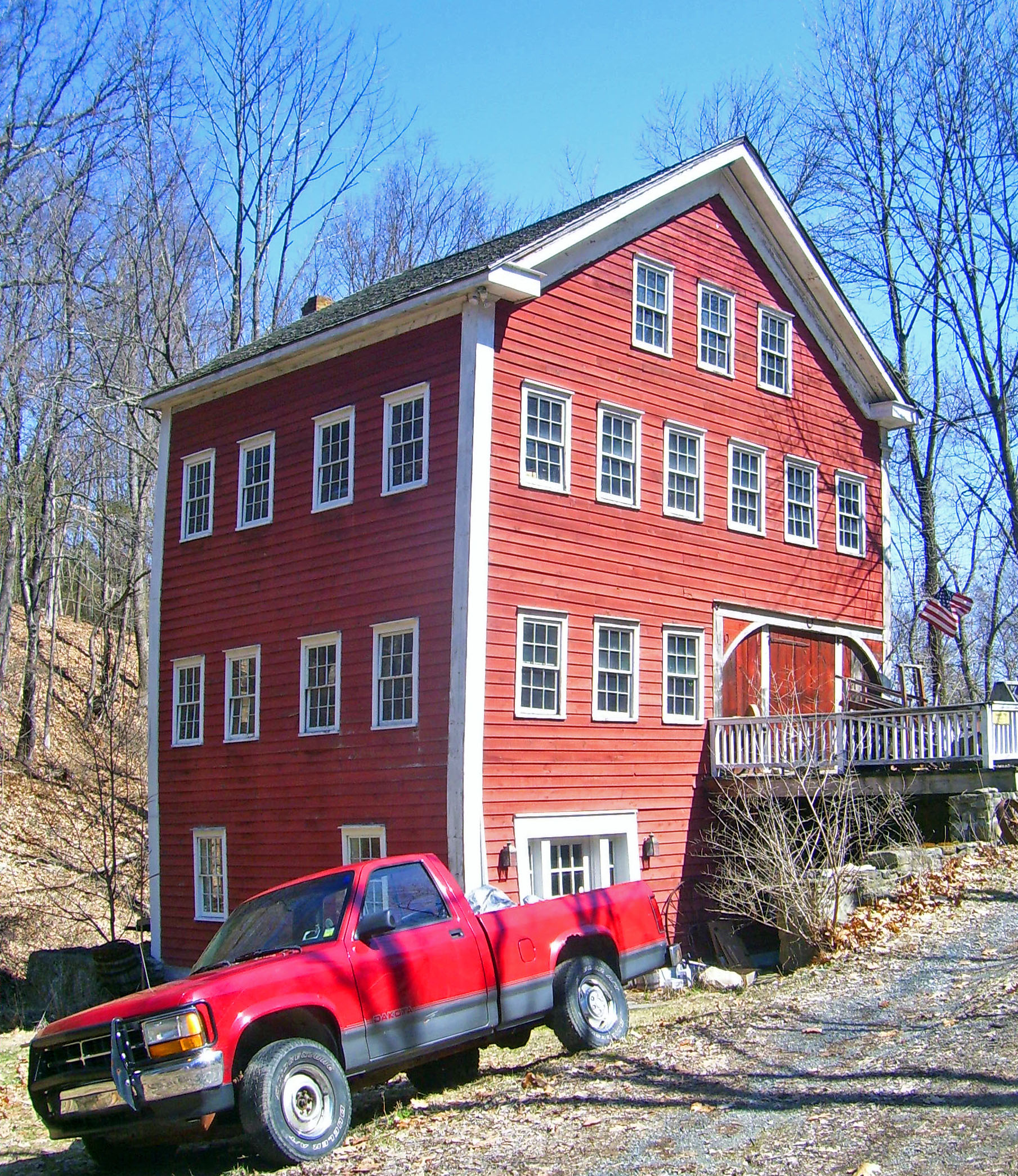 Mill built and operated by Culver Randel along present-day NY 94 in Florida, NY, USA.